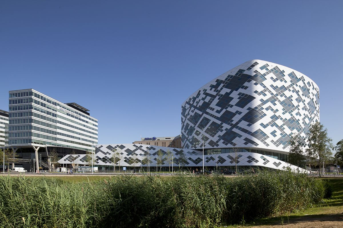 Hilton Hotel Schiphol